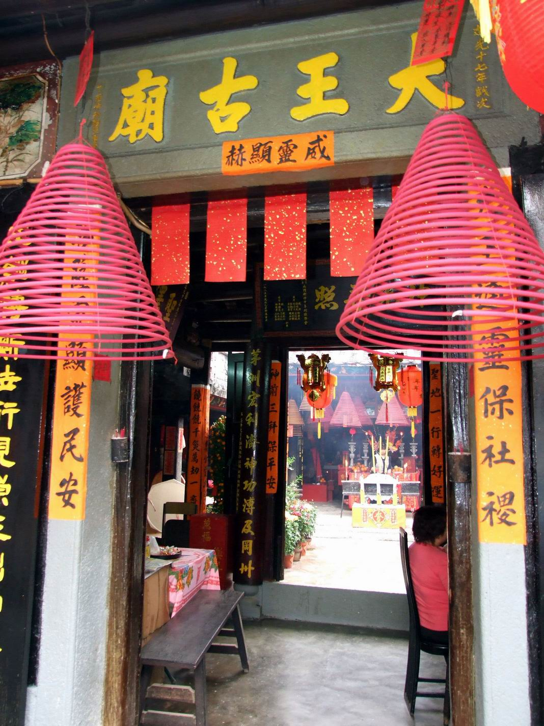 元朗舊墟大王古廟 This Tai Wong Temple was probably built between 1662-1722. It is the main temple of Nam Pin Wai as well as Yuen Long Kau Hui.[1] It was built for the worship of the two "Tai Wongs", Hung Shing and Yeung Hau.[2]